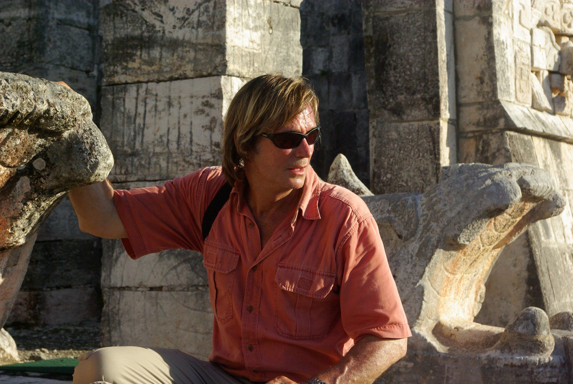 Austin Stevens on location at a Mayan temple in the jungles of the Yucatán Peninsula in Mexico in 2008.